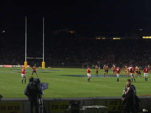 Bay of Plenty v British Irish Lions